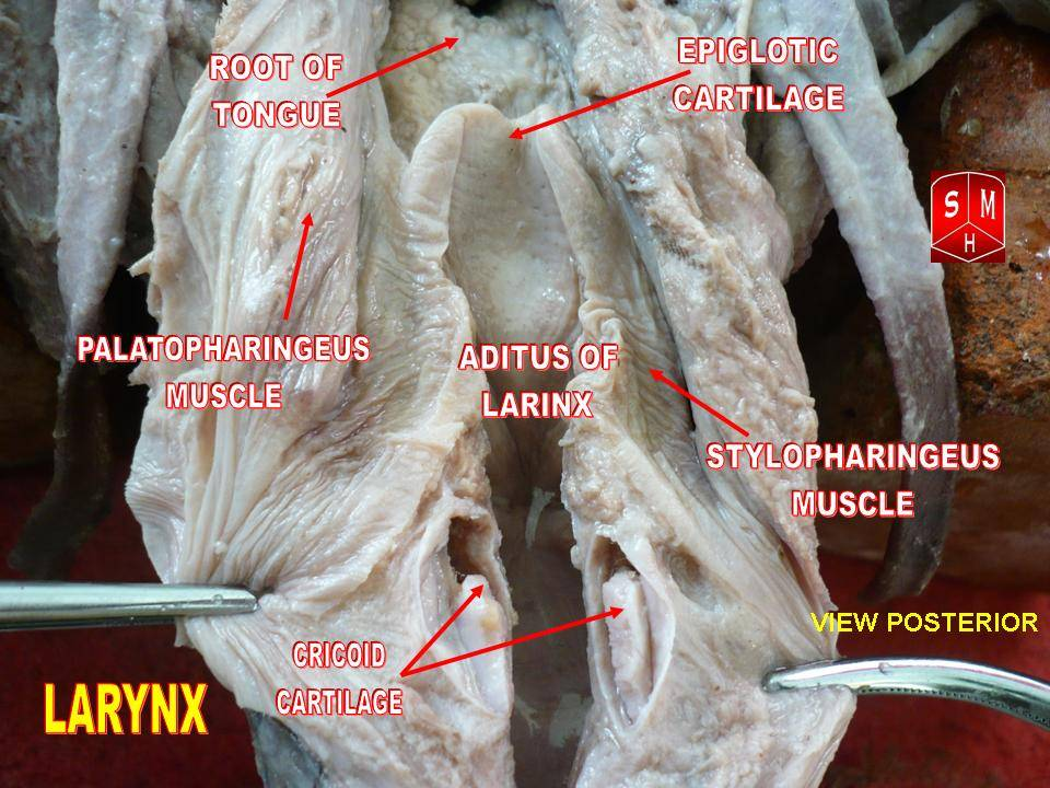 Epiglotic cartilage